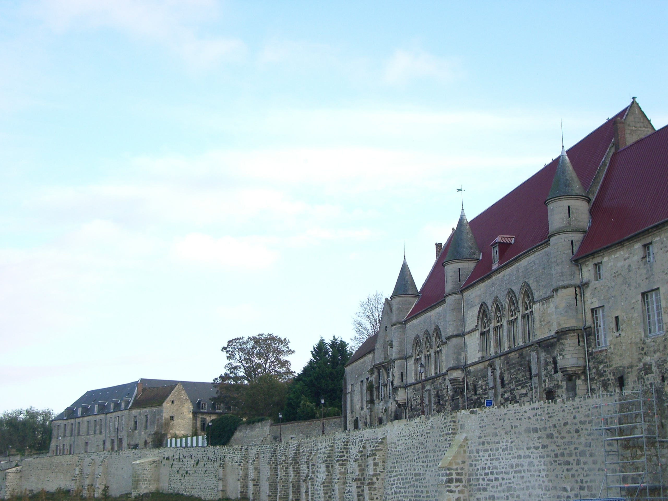 Tribunal and walls of Laon, Aisne, France